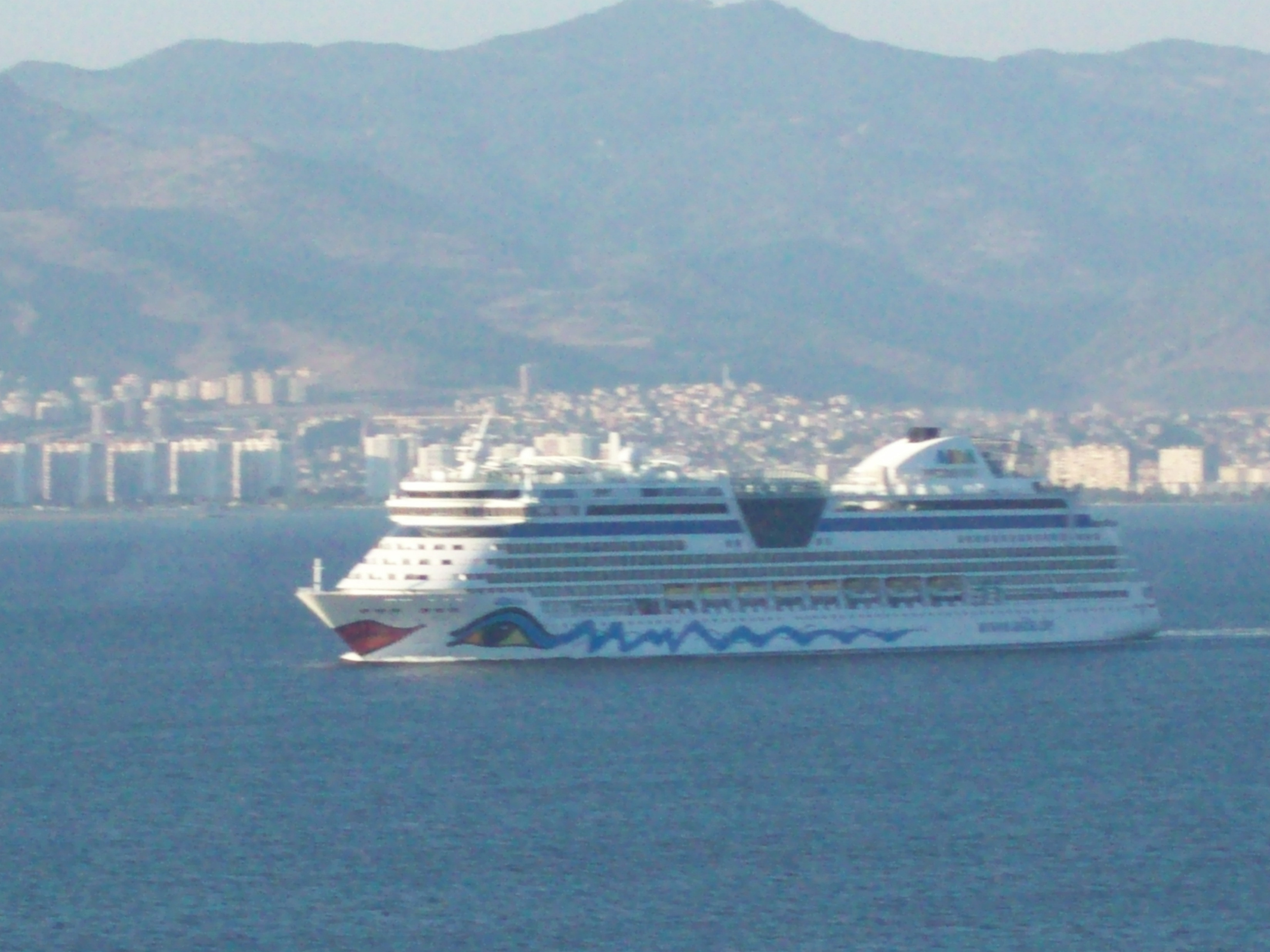 Aida Diva in Izmir